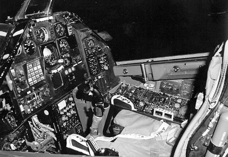 Lockheed F-117A cockpit